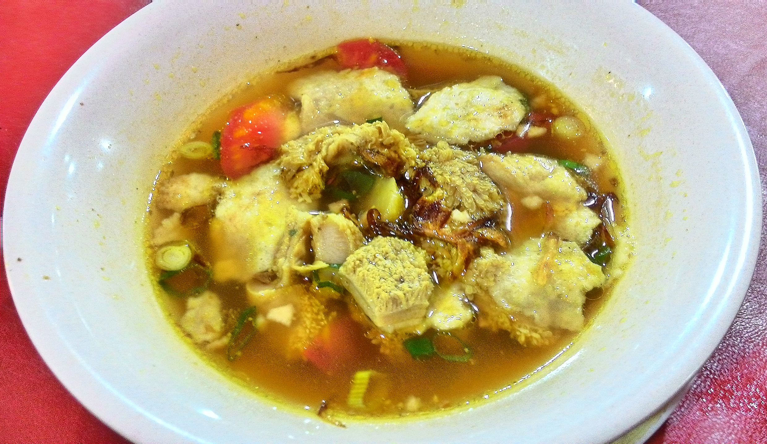 Soto Babat, Indonesian cattle rumen tripe in spicy soto soup. Served in Jakarta, Indonesia.